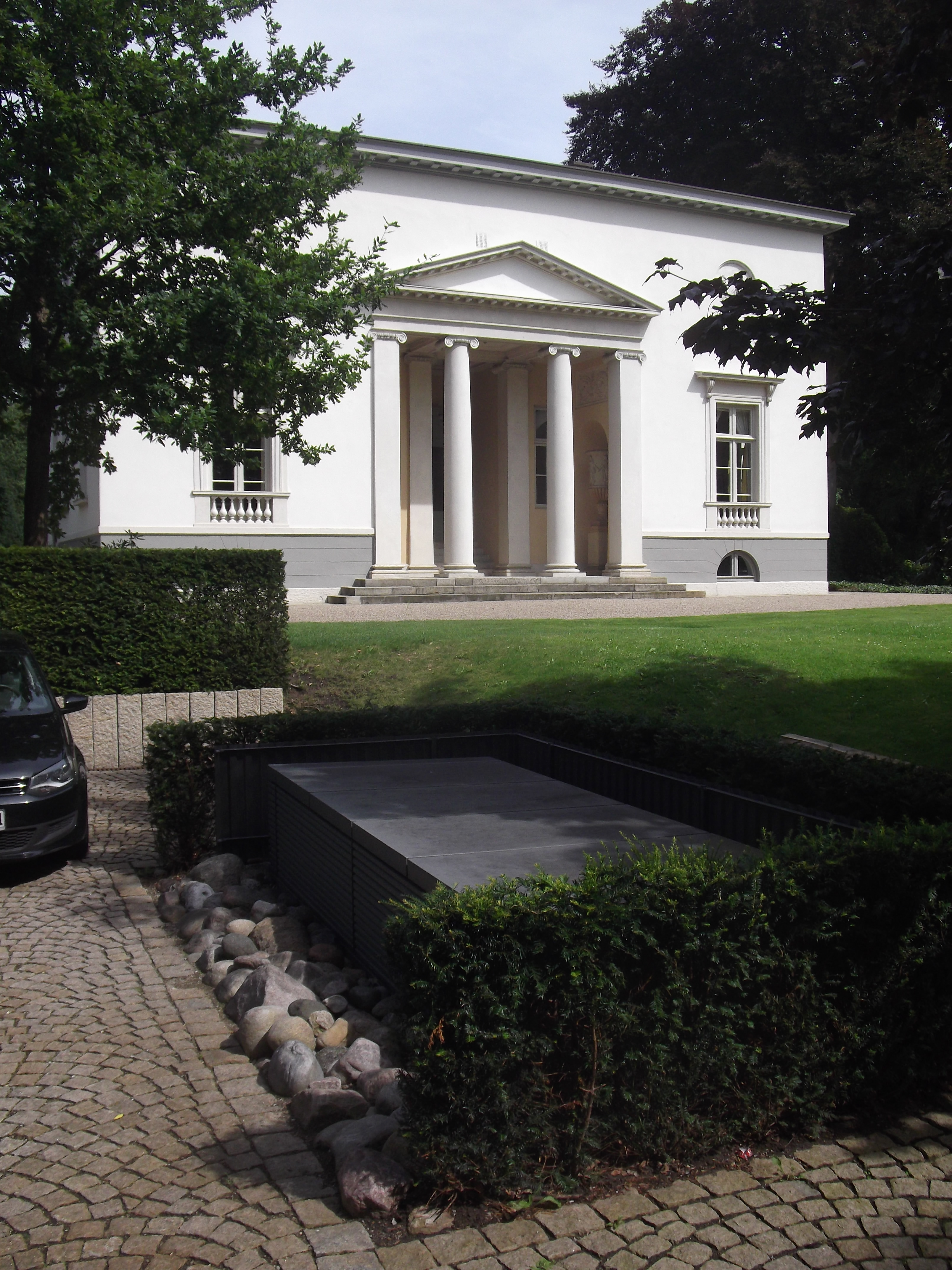 Facade, Elbchaussee 372, Nienstedten, Hamburg, This is a photograph of an architectural monument.